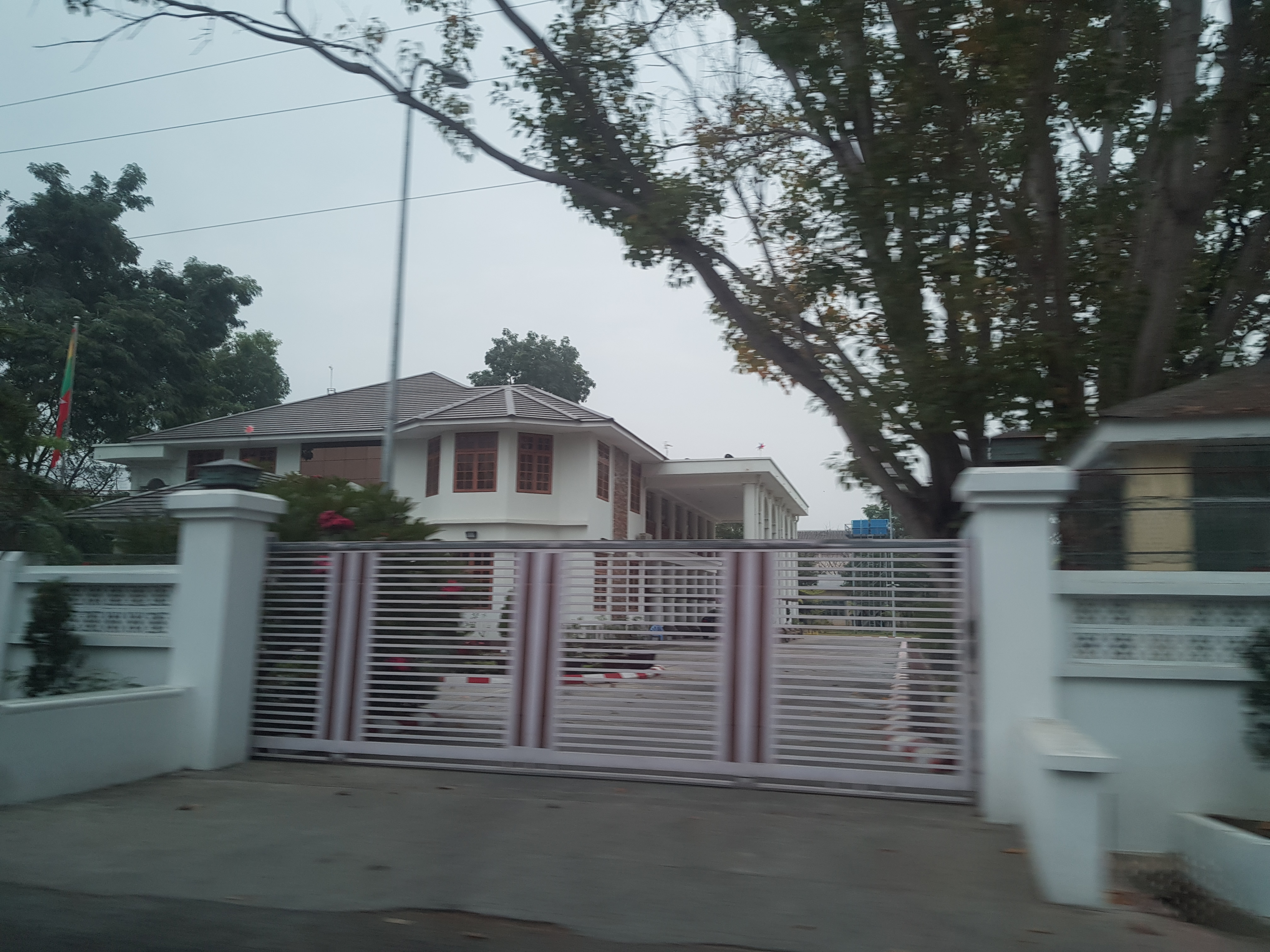 Official residence of Mandalay Chief Minister မြန်မာဘာသာ: မန္တ​လေးတိုင်း​ဒေသကြီးအစိုးရအဖွဲ့ ဝန်ကြီးချုပ်အိမ်​တော်